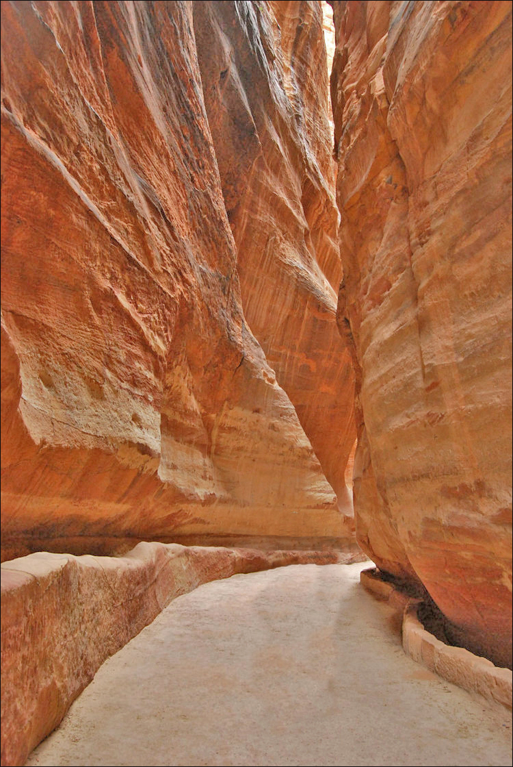 Petra. Channel along the Siq.